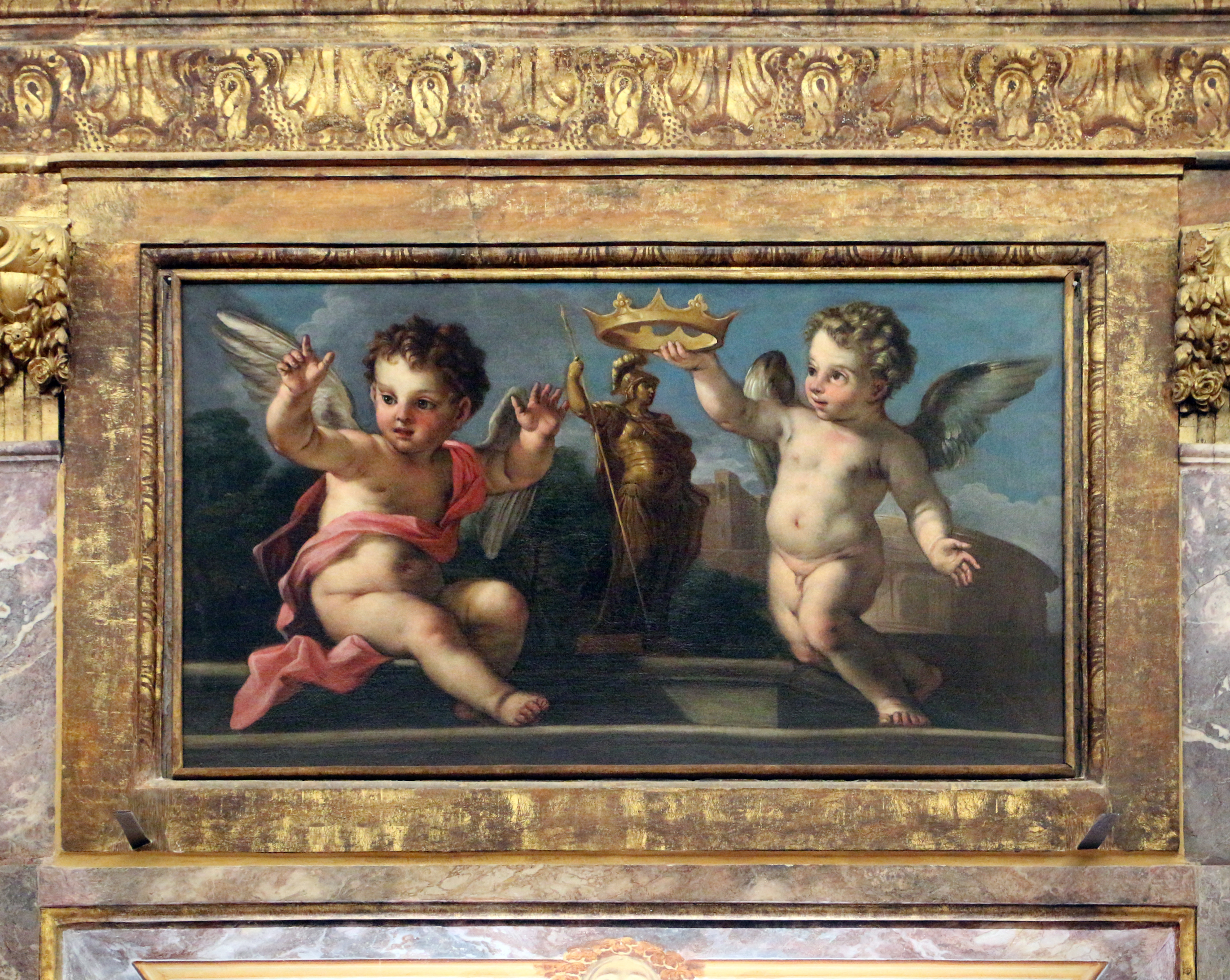 Palazzo Buonaccorsi (Macerata) - Old Masters